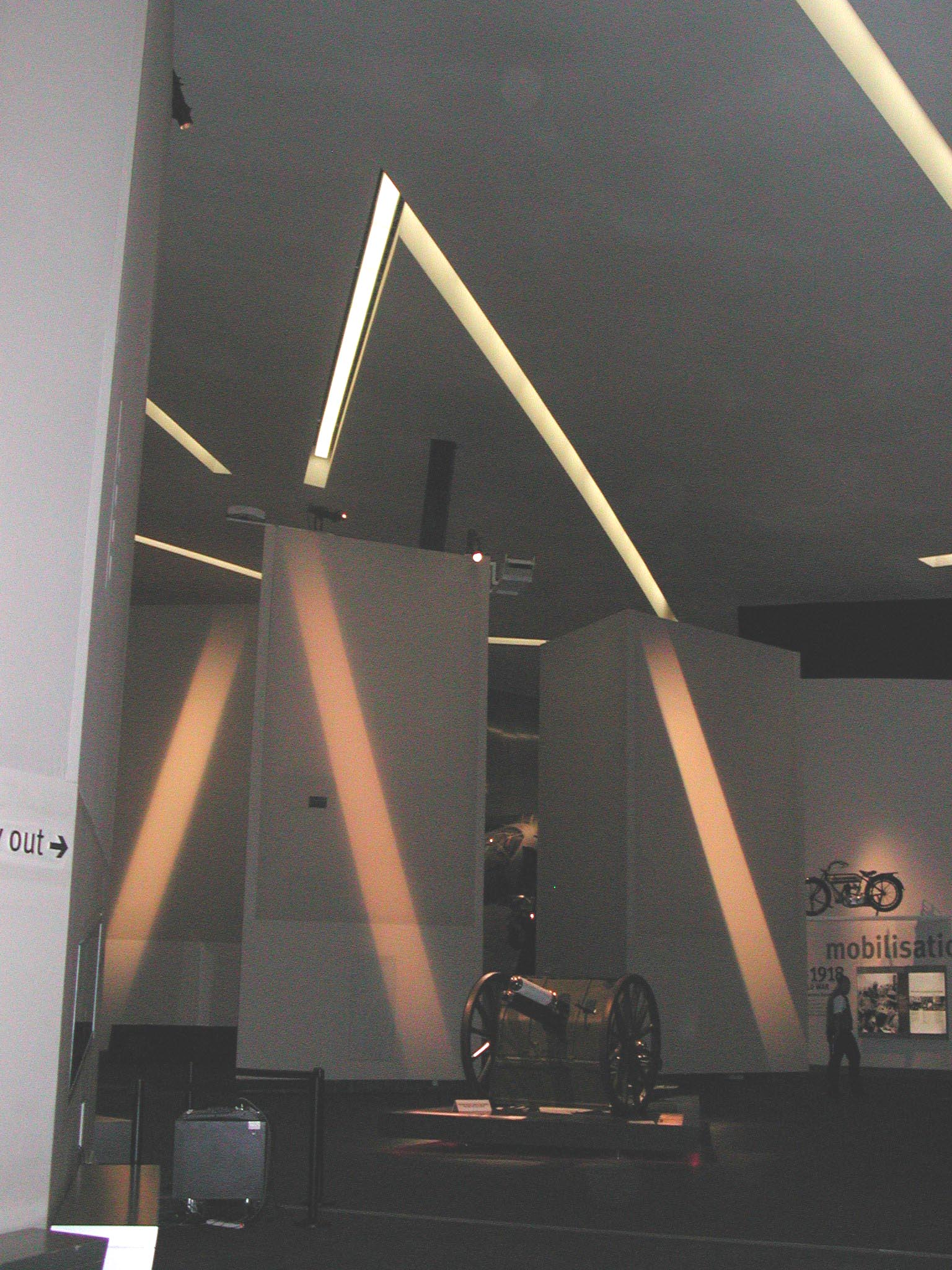 Imperial War Museum North / The big picture